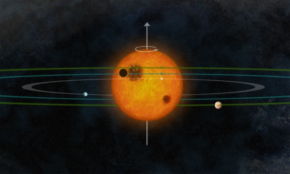 In this artist interpretation, the planet Kepler-30c is transiting one of the large starspots that frequently appear on the surface of its host star. The authors used these spot-crossing events to show that the orbits of the three planets (color lines) are aligned with the rotation of the star (curly white arrow). See also graphic without orbit lines in illustration below. Credit: Cristina Sanchis Ojeda